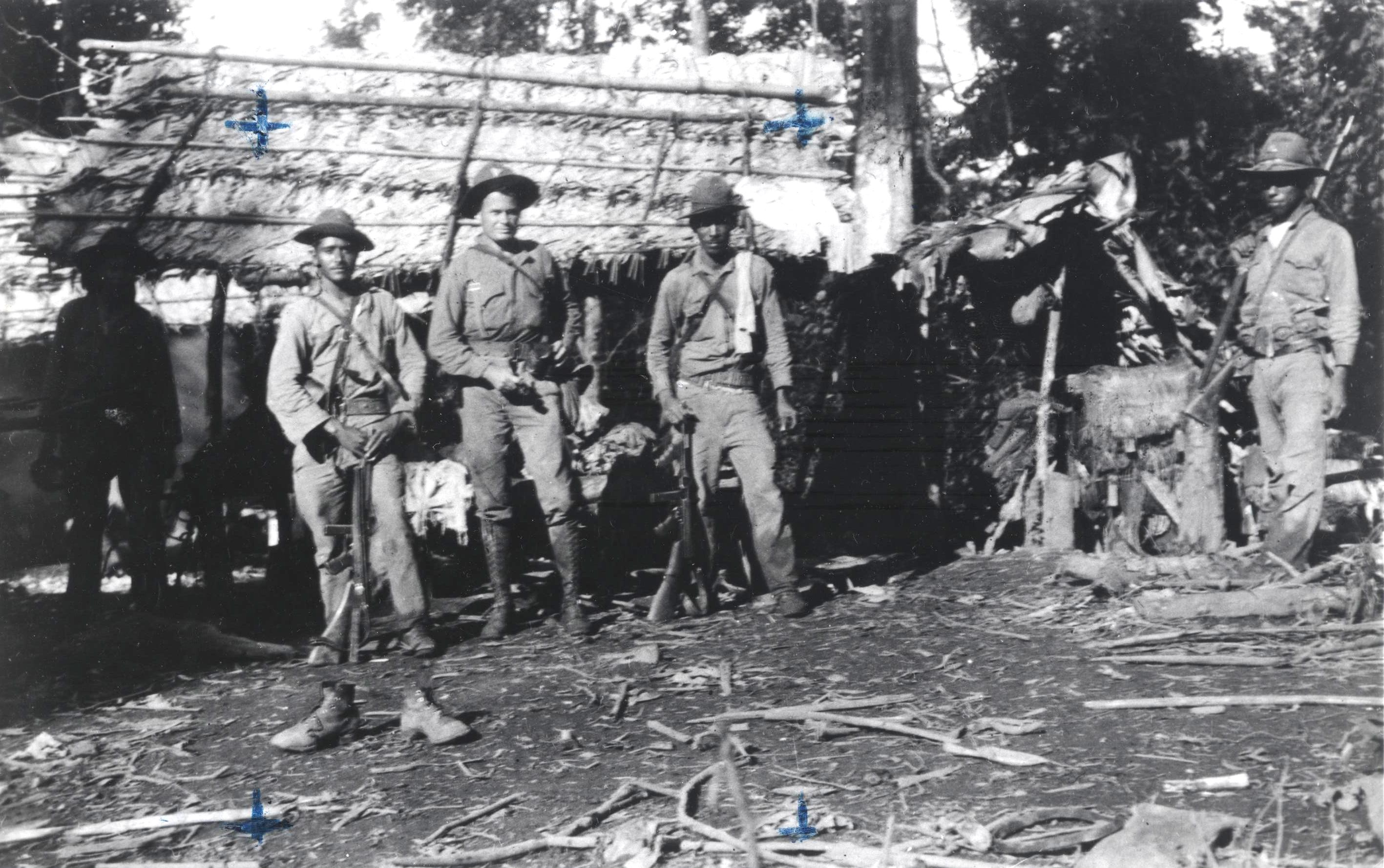 Lewis Puller and members of the Nicaraguan National Guard Detachment, circa 1931. From the Lewis B. Puller Collection (COLL/794) at the Marine Corps Archives and Special Collections OFFICIAL USMC PHOTOGRAPH